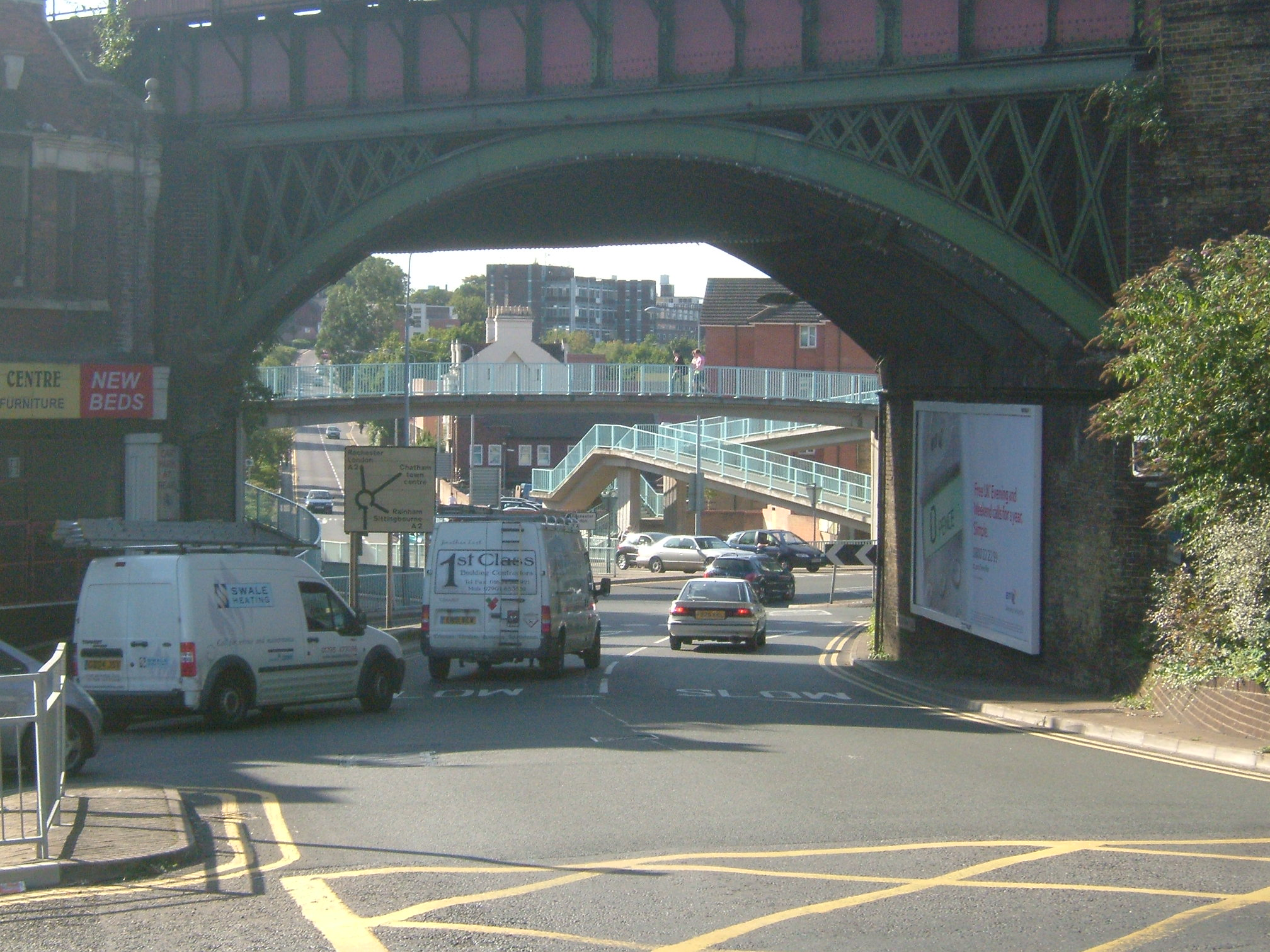 Chatham is a town in ,North Kent ,England. The A2 road and Luton Road pass under the Chatham Main Line at the Luton Arches. Looking West to Chatham High Street. White vans filter in from Luton Road. Pedestrians on complex footbridge. Hidden Traffic Signal Camera.